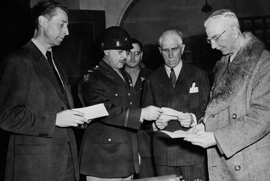 Hans Fritzsche, Franz von Papen and Hjalmar Schacht with Colonel Andrus